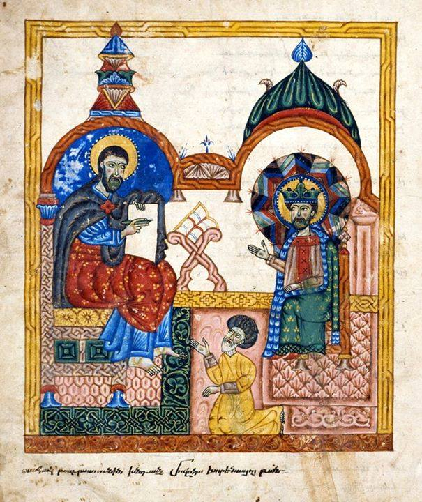 Moses of Chorene (left) with Prince Sahak Bragatouni; from 14th century manuscript.